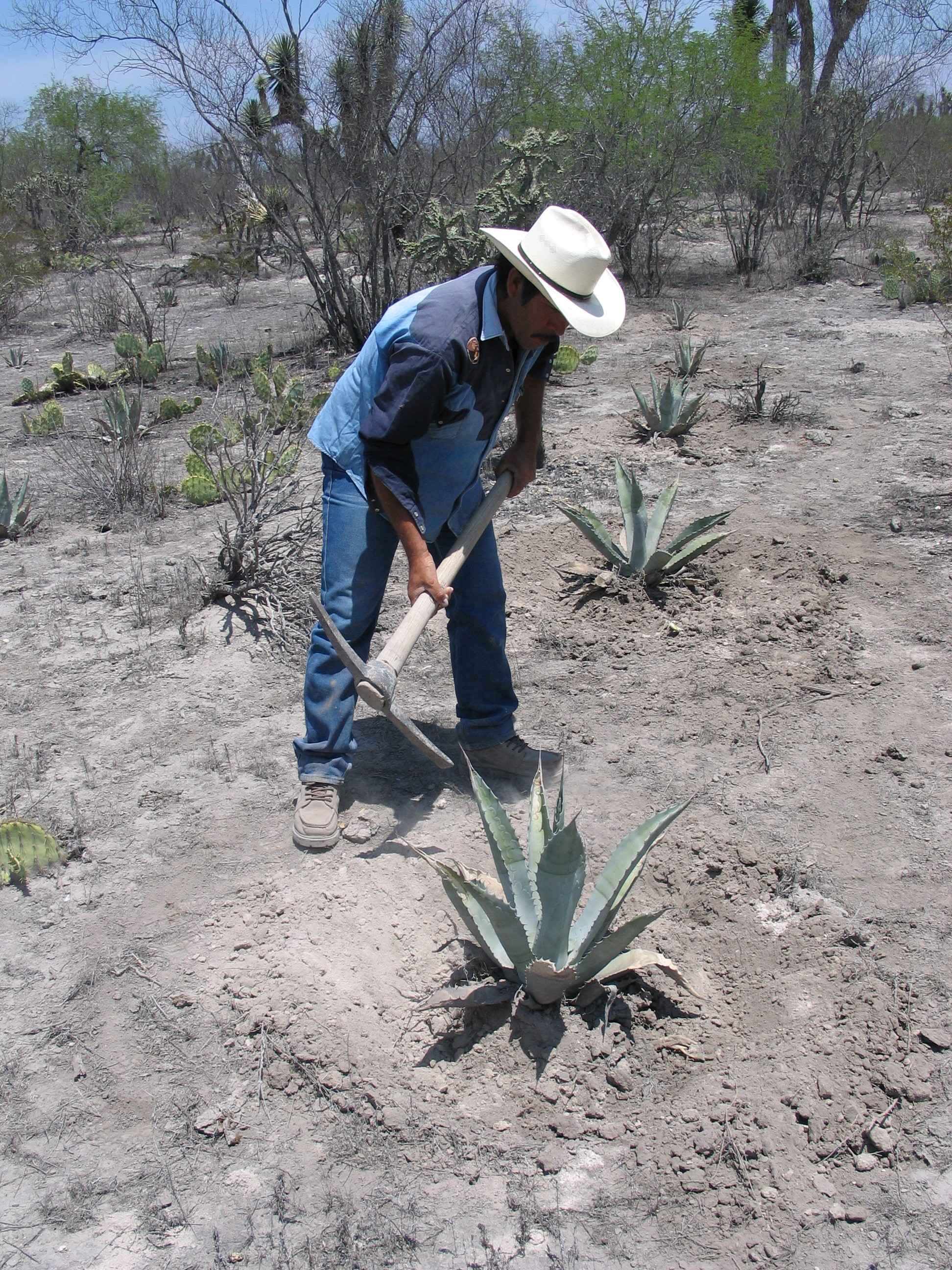 Planting native plants on slopes to control erosion around bat caves. Credit: Program for the Conservation of Mexican Bats